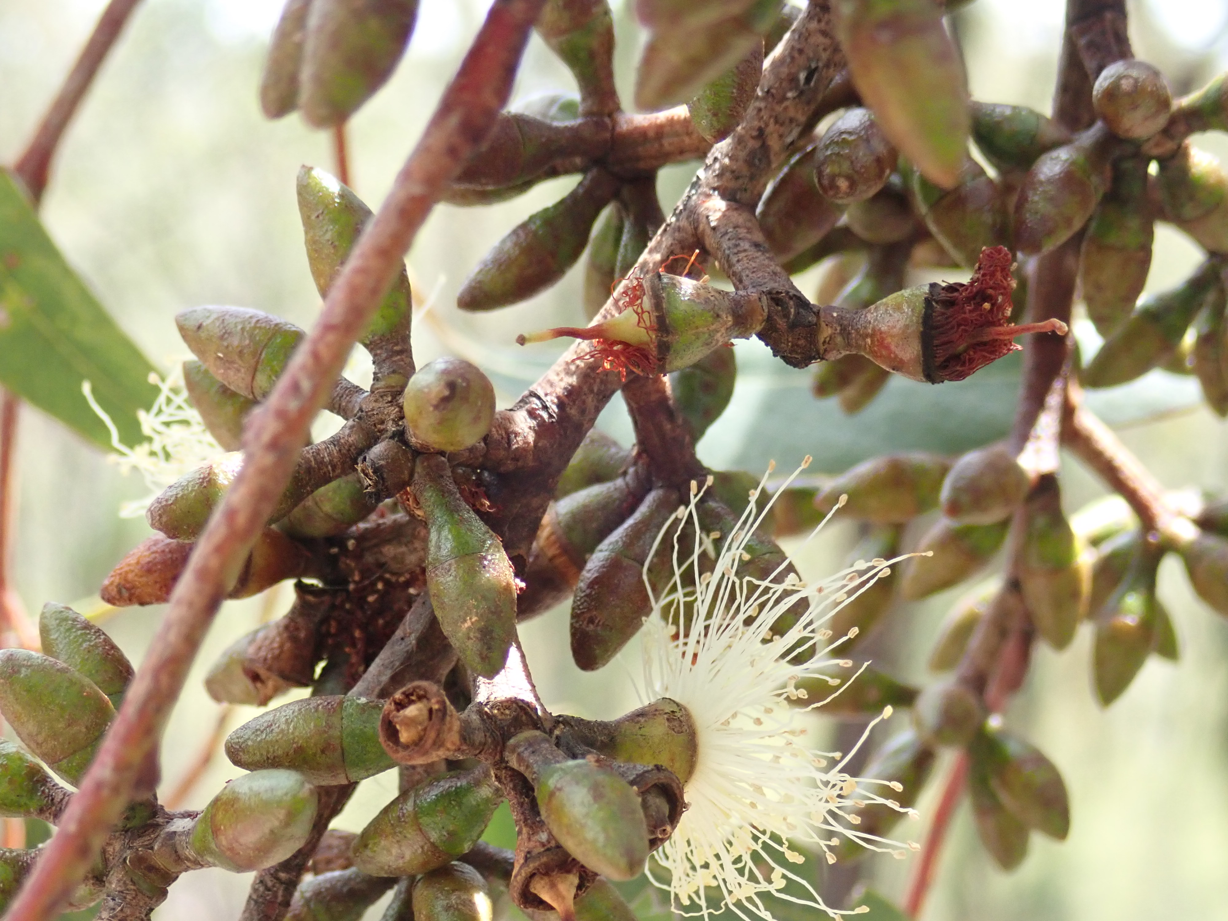 Waypoint 298. Pokolbin mallee, Eucalyptus pumila, Pokolbin, NSW, 28/11/2017. Inflorescence and leaves. GPS Latitude Ref - South GPS Latitude - 32 deg 46' 29.96" GPS Longitude Ref - East GPS Longitude - 151 deg 15' 24.50" GPS Altitude Ref - Above Sea Level GPS Altitude - 189.41 m Pokolbin Mallee, Eucalyptus pumila